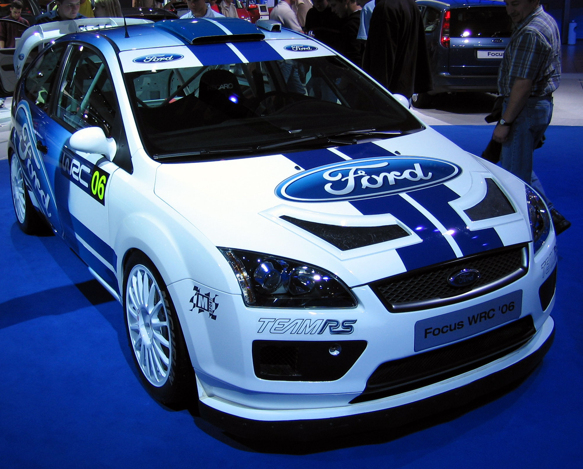 Ford Focus WRC2006 at the IAA 2005